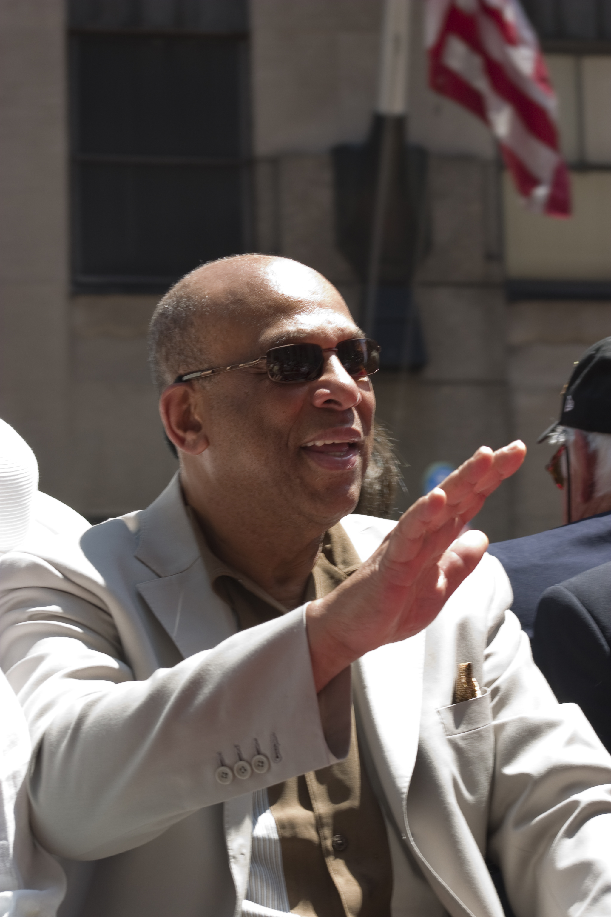 Orlando Cepeda at the 2008 All-Star Game Red Carpet Parade. Photographer Martyna Borkowski